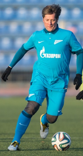 Konstantin Ivanov as a player of FC Zenit St. Petersburg